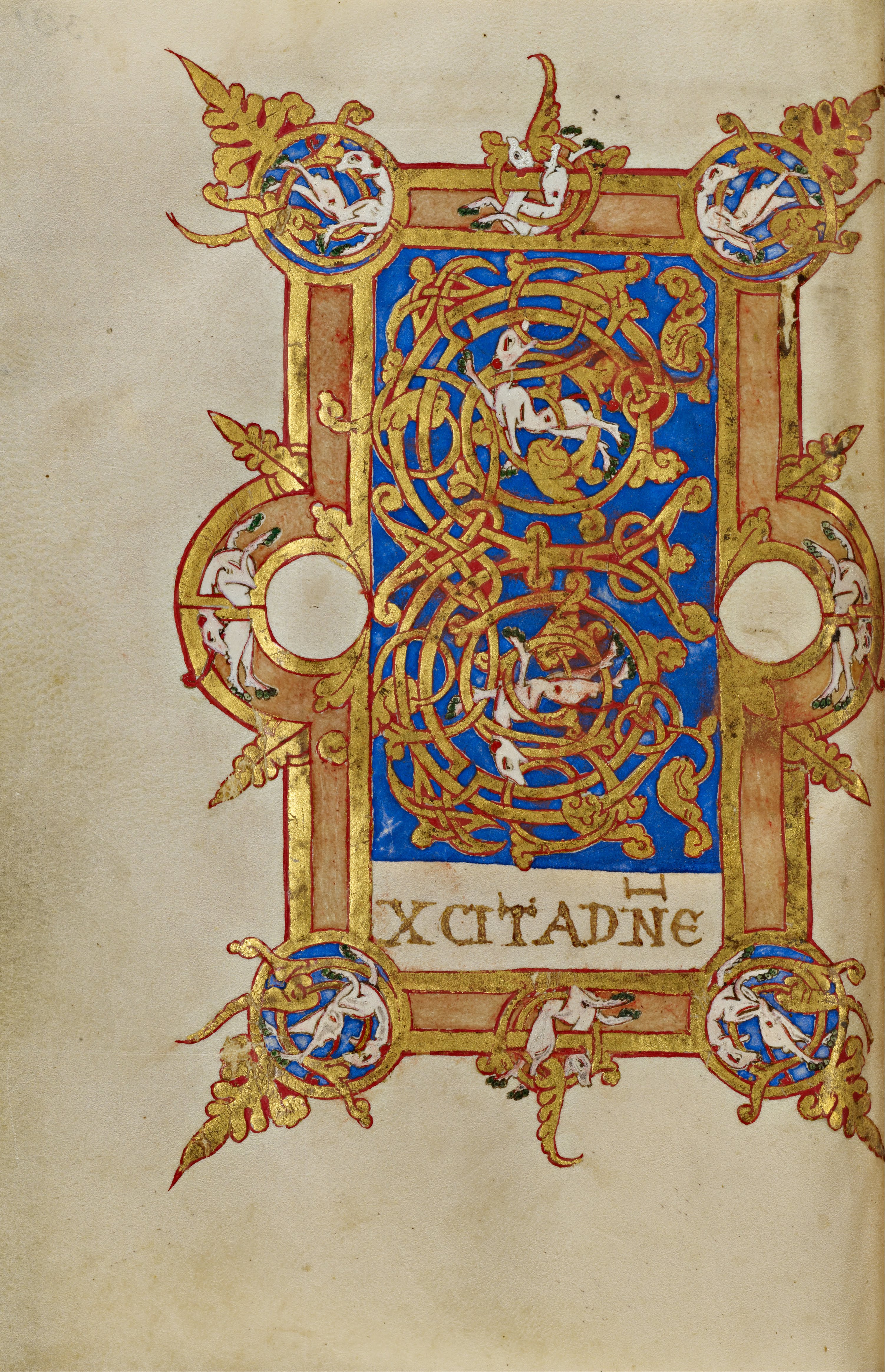 Marking the beginning of a new section of prayers in this breviary from Montecassino in southern Italy, the almost full-page inhabited initial E begins the prayer Excita, D[omi]ne, quesumus potentiam tuam [‘Rouse up your power, Lord, we pray’]. Within the spiraling tendrils of the E and the circular medallions punctuating its rectangular frame, dogs curl and twist. The frame's thick, gold bars, which themselves bulge at the corners and center sides, barely restrain the writhing dogs and the vine's wild lines. Little differentiates the spirals forming the armature of the letter from those filling in its circular voids. The vine sprouts stylized leaves in a variety of different stages, from those just beginning to unfurl to those already full and extended.